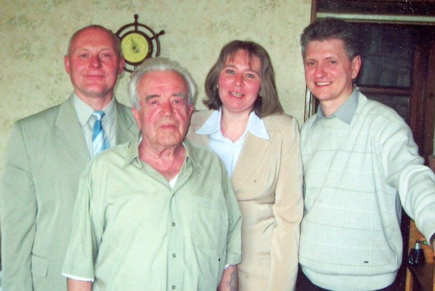 Migal B.K. and students